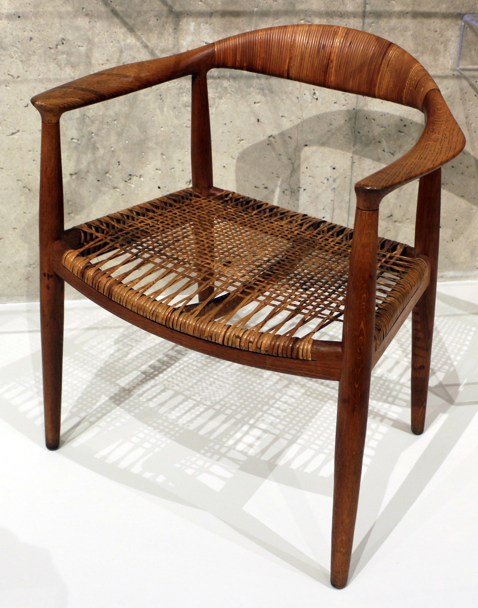 Furniture in the Milwaukee Art Museum